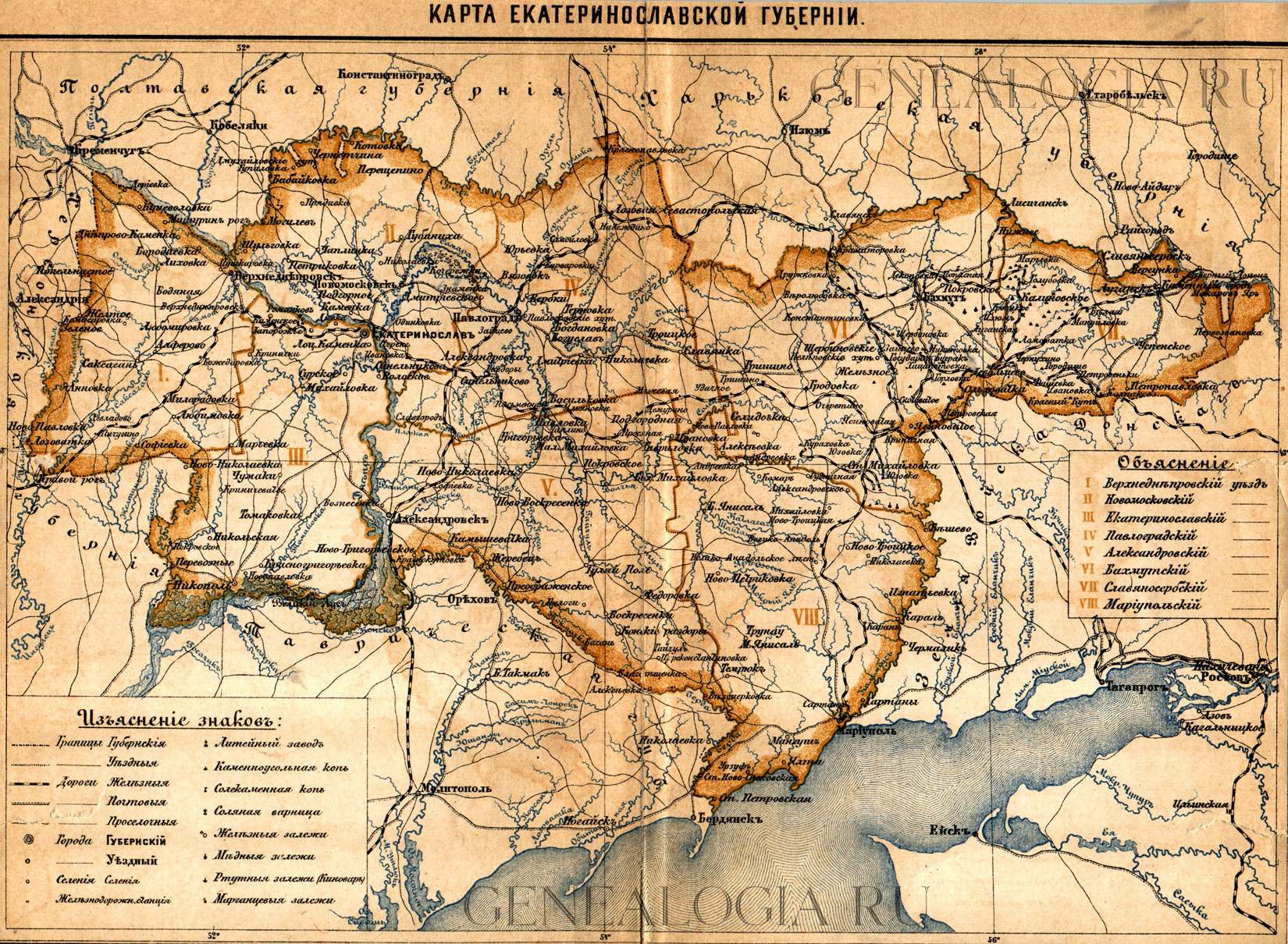 Map of Yekaterinoslav Governorate